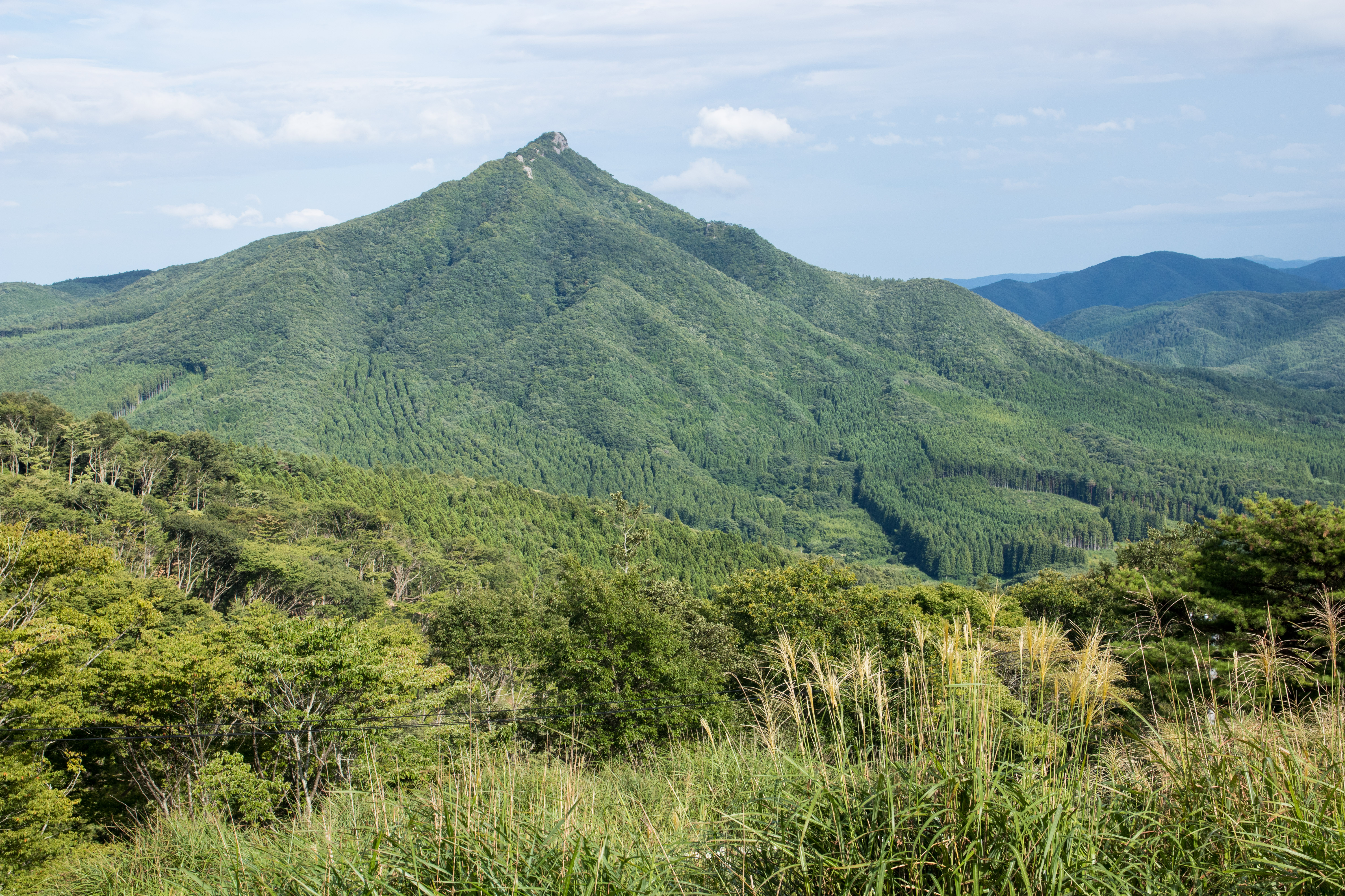 Mount Kamakura, Abukuma Mountains, Fukushima Pref., Japan